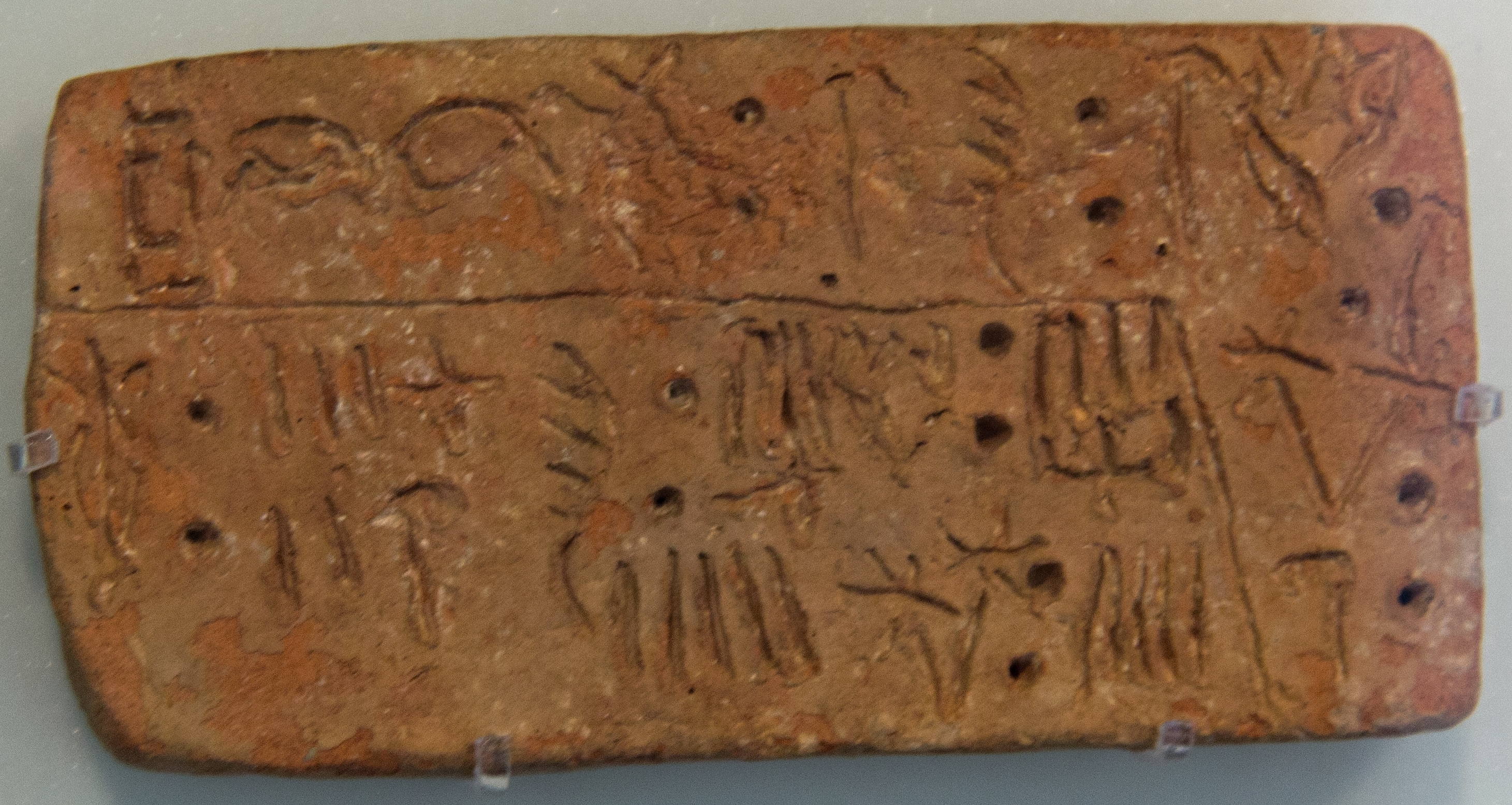 Linear A inscription on a clay tablet from Crete, probably 15th century BC. Archaeological Museum of Heraklion.